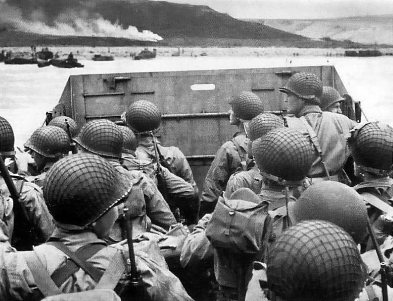 World War II, operation Overlord, Omaha beach, (Landing Craft Vehicle Personnel)